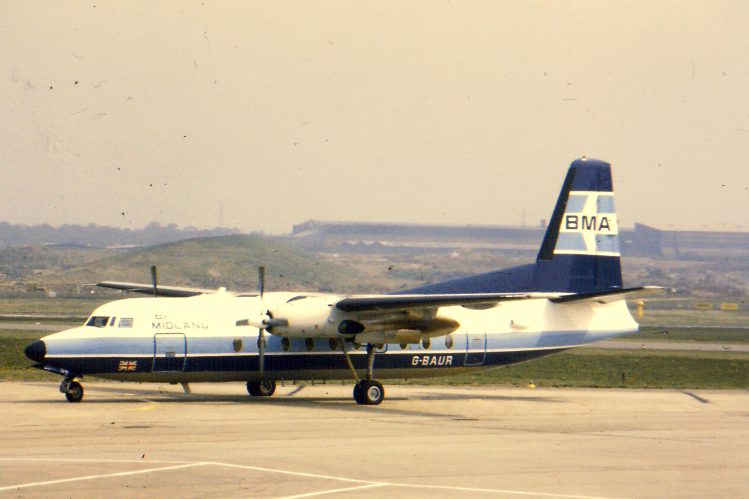 This aircraft was an Air Anglian F27 but leased to BMA in the early 1980's. The scheduled Air India 707 arrived shortly after. The earthworks are for the new BHX terminal, located across the runway from this location.